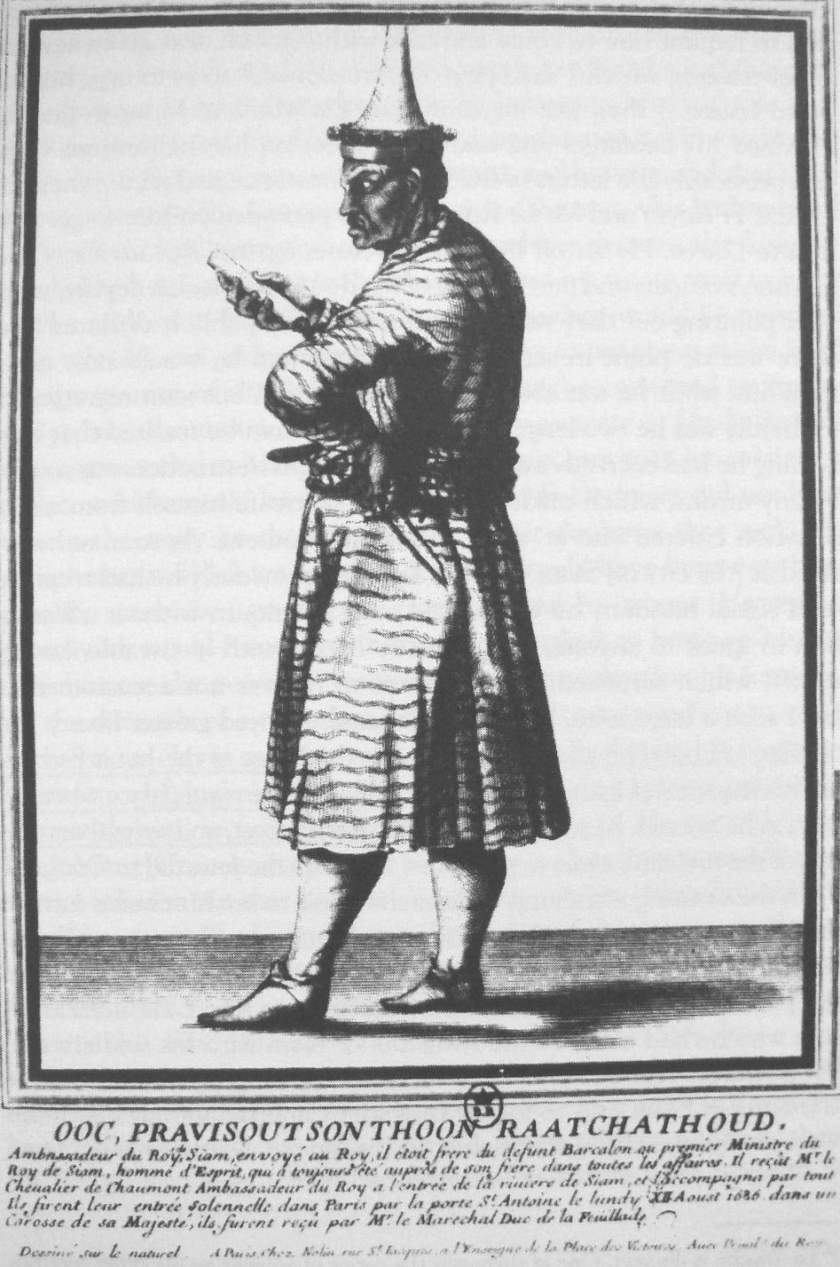 Kosa Pan